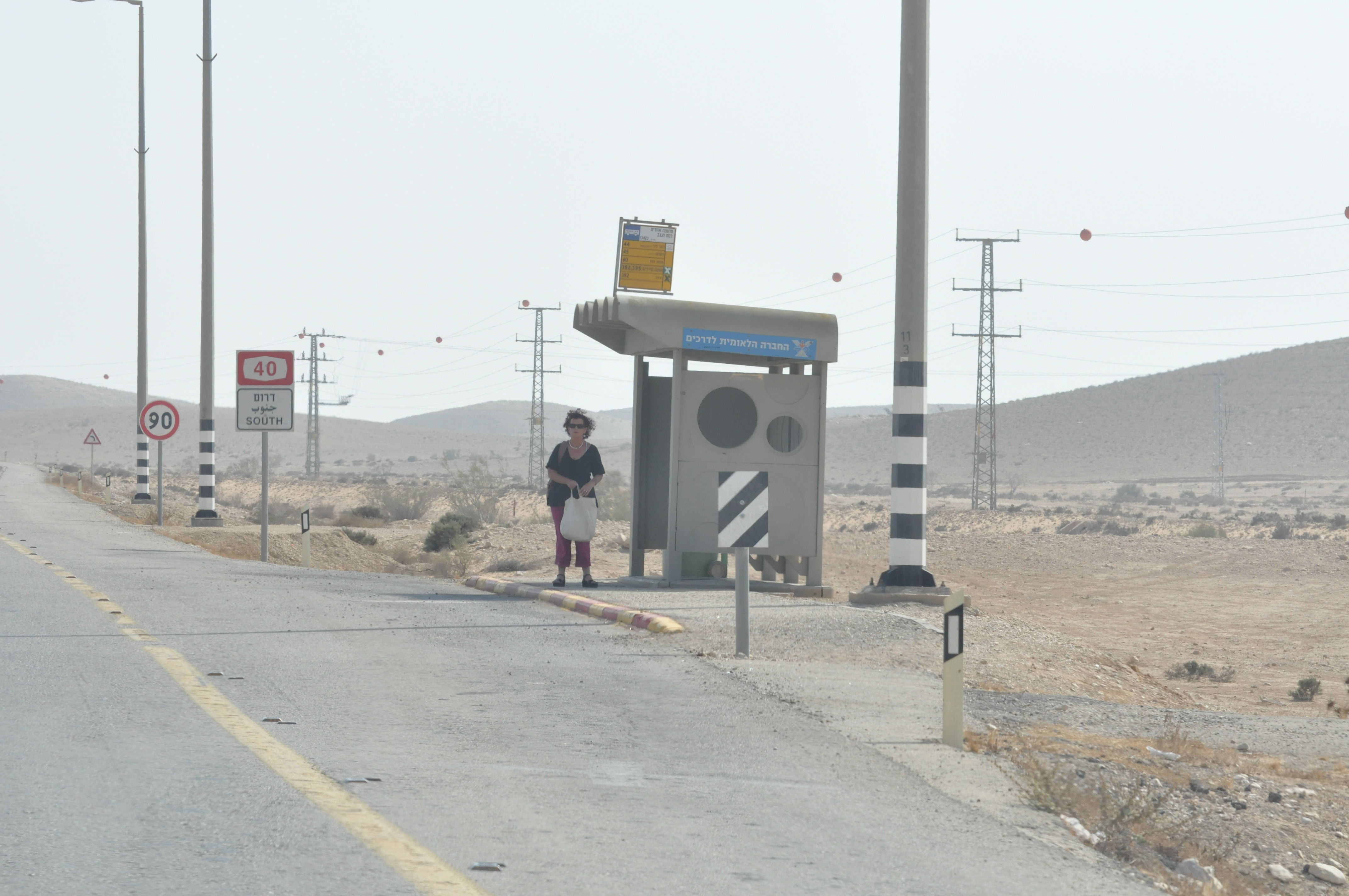 Woman waiting on a bus in the Negev desert